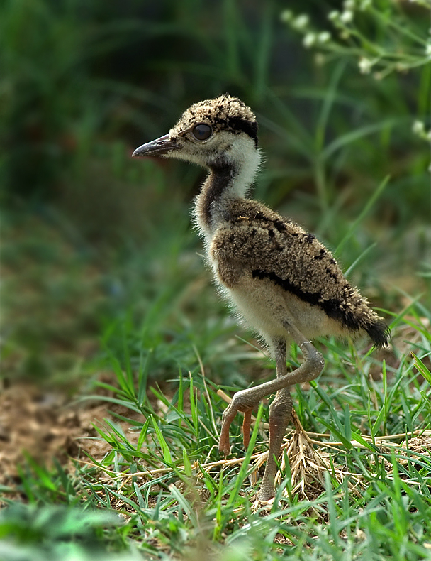 Red-wattled Lapwing at outskirts of NewDelhi, India. Photographed one morning from a car.